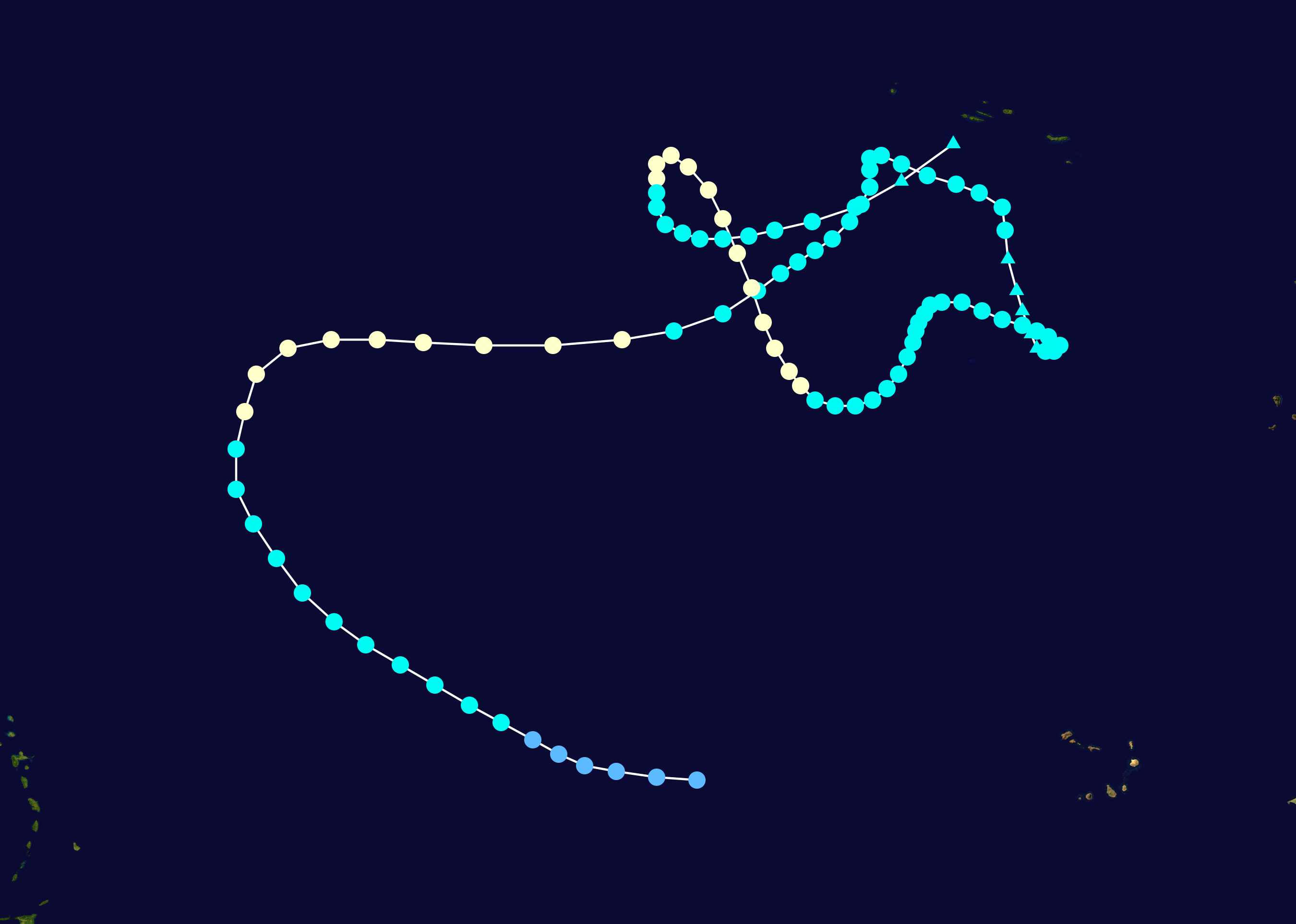 Track map of Hurricane Nadine of the 2012 Atlantic hurricane season. The points show the location of the storm at 6-hour intervals. The colour represents the storm's maximum sustained wind speeds as classified in the Saffir–Simpson scale (see below), and the shape of the data points represent the nature of the storm, according to the legend below. Saffir–Simpson scale Tropical depression≤38 mph≤62 km/h Category 3111–129 mph178–208 km/h Tropical storm39–73 mph63–118 km/h Category 4130–156 mph209–251 km/h Category 174–95 mph119–153 km/h Category 5≥157 mph≥252 km/h Category 296–110 mph154–177 km/h Unknown Storm type Tropical cyclone Subtropical cyclone Extratropical cyclone / Remnant low / Tropical disturbance / Monsoon depression